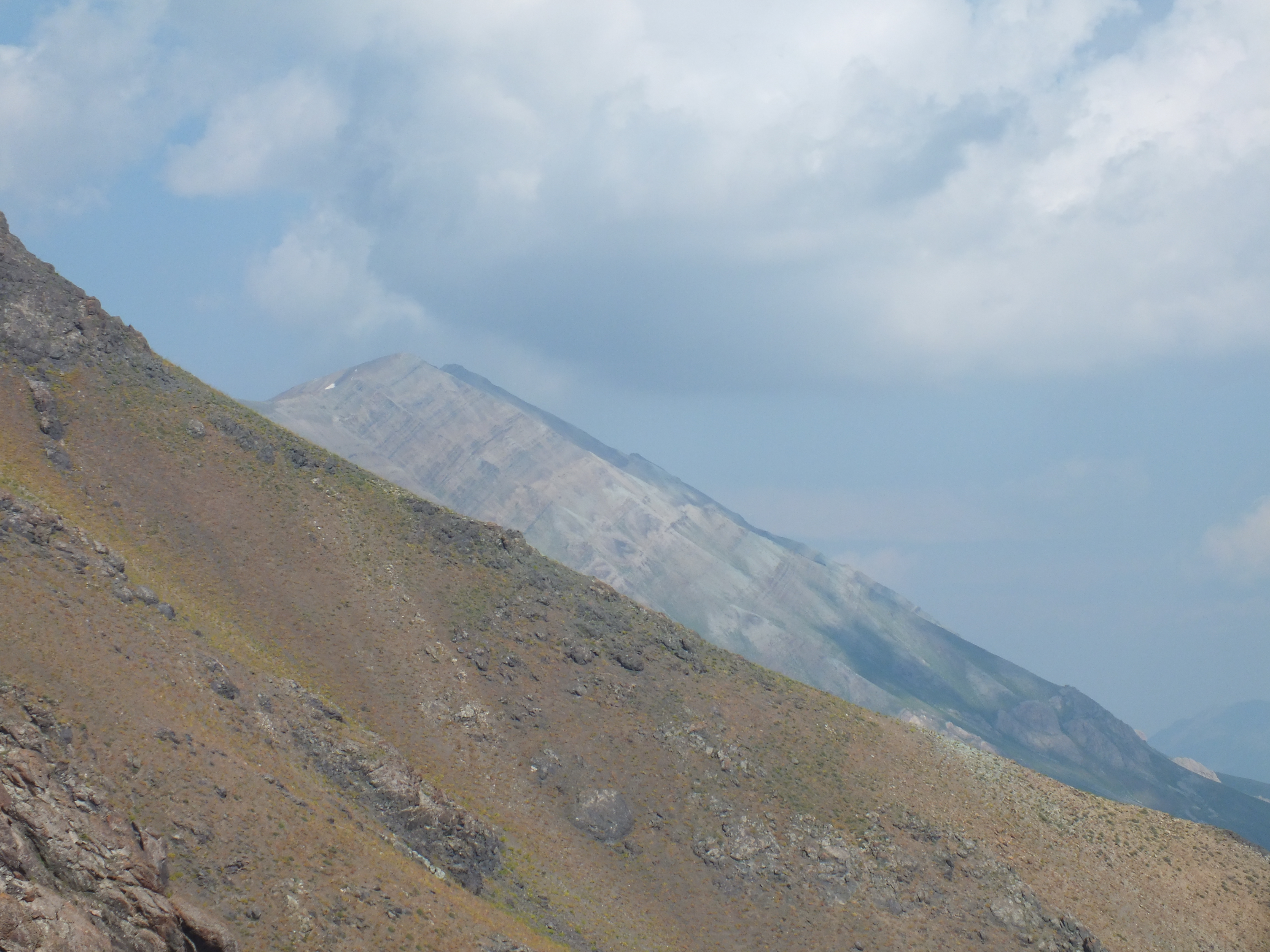 srakchal mountain in shemashak